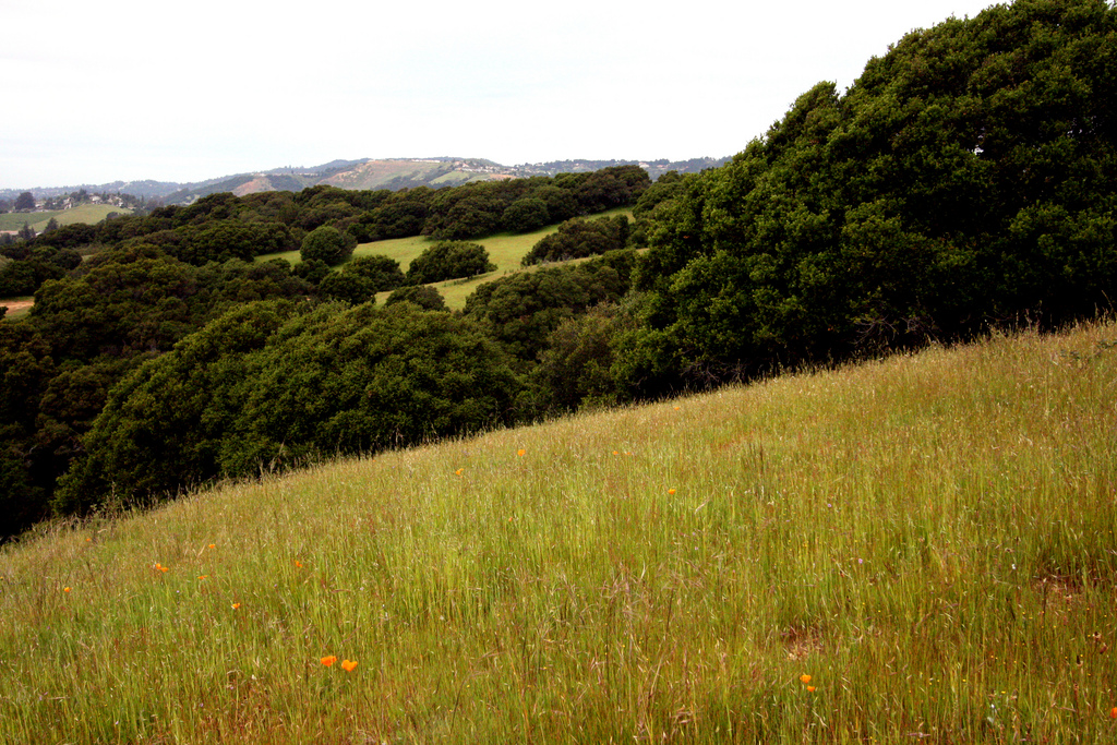 A photo of the upper knolls of Knowland City Park in Oakland, California.